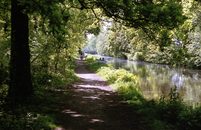 Basingstoke Canal Looking westwards from the junction with the Wey Navigation. Lock No 1 is in the distance.